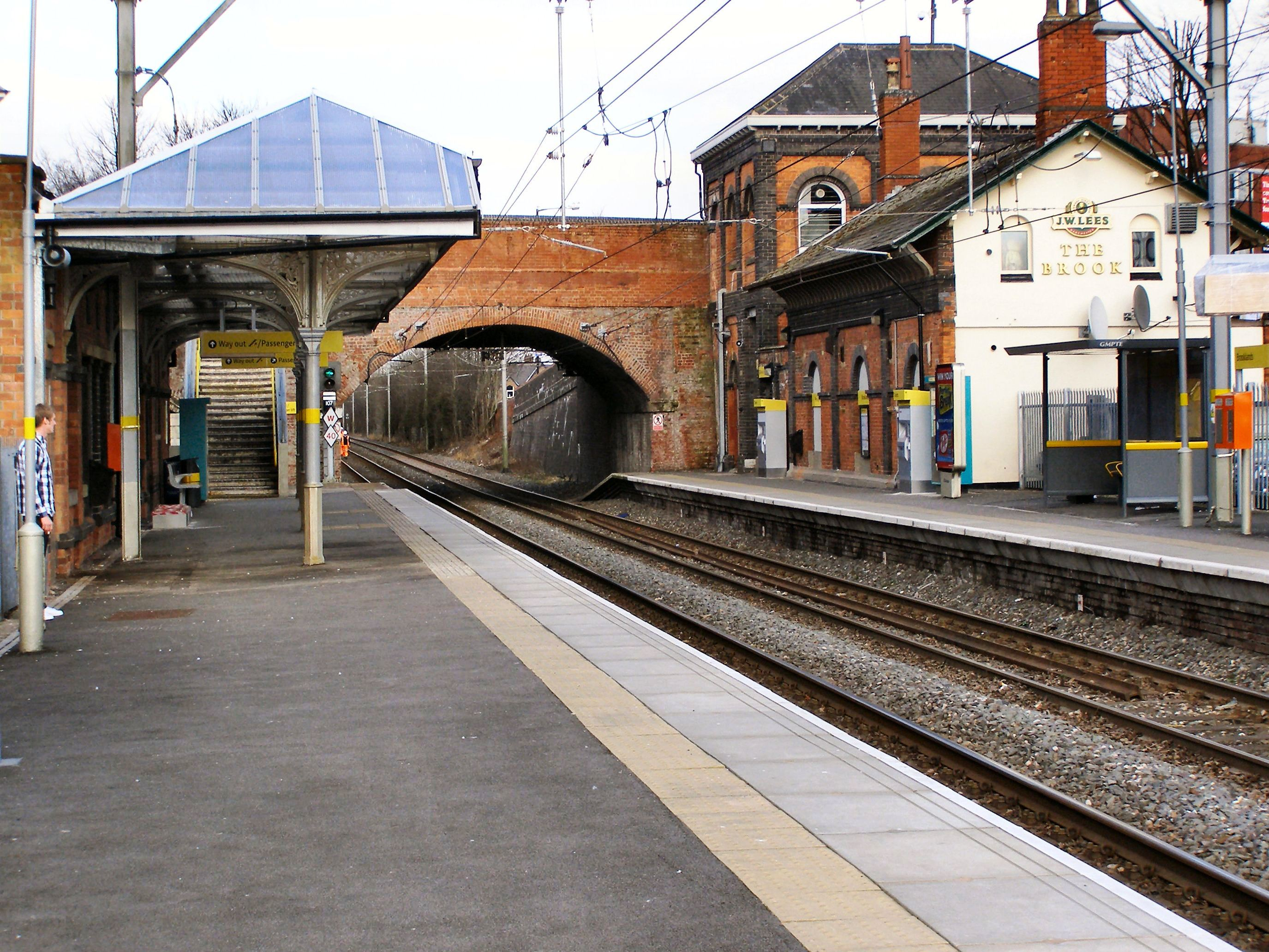 Brooklands Station Looking north eastwards towards Marsland Bridge in the direction of Sale and Manchester.